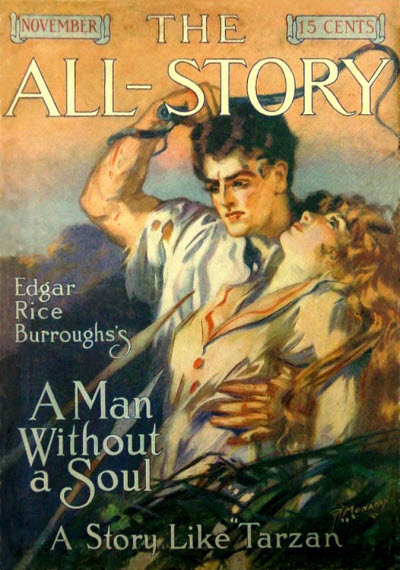 All-Story Weekly, November 1913